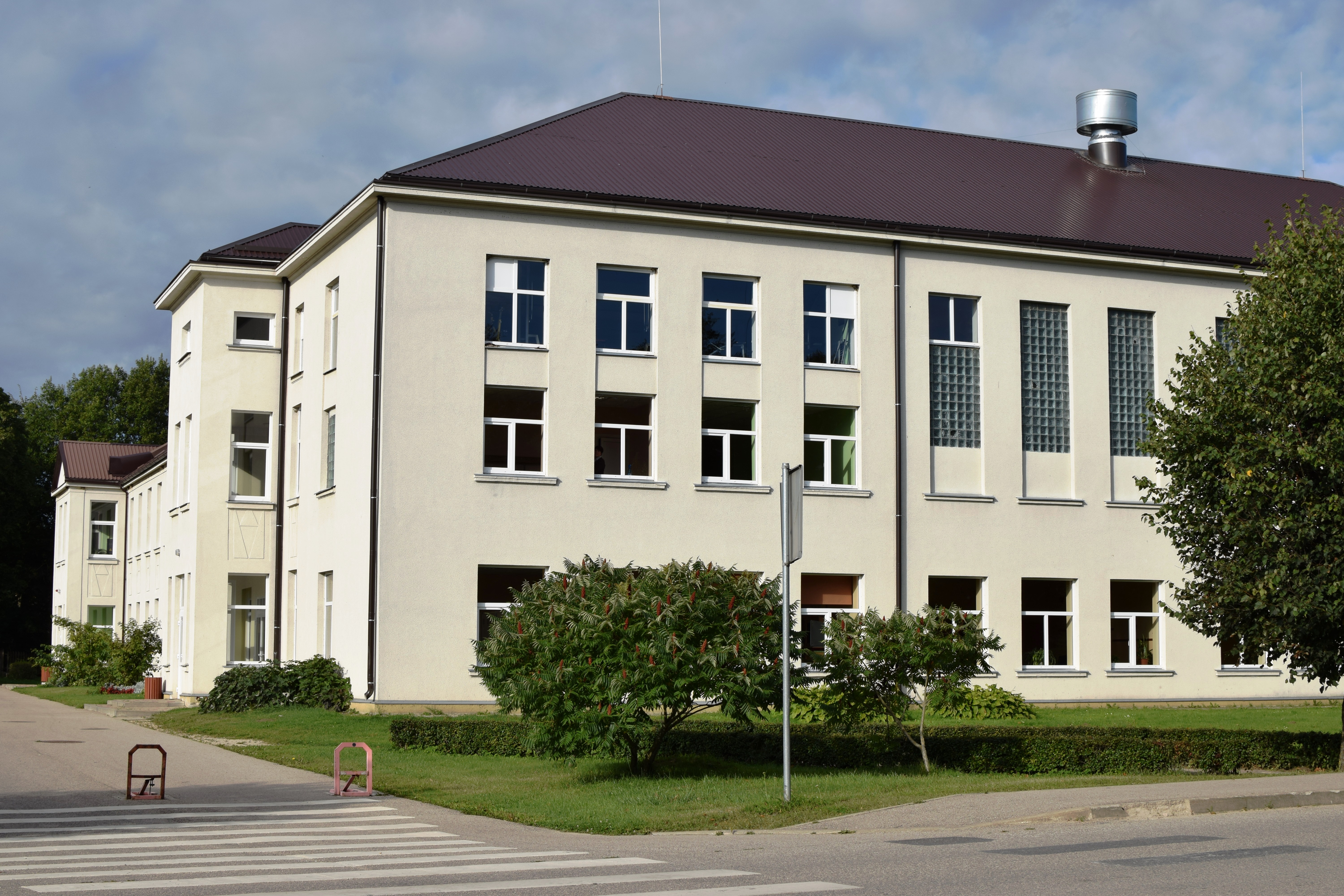 Auce (Auces novads)